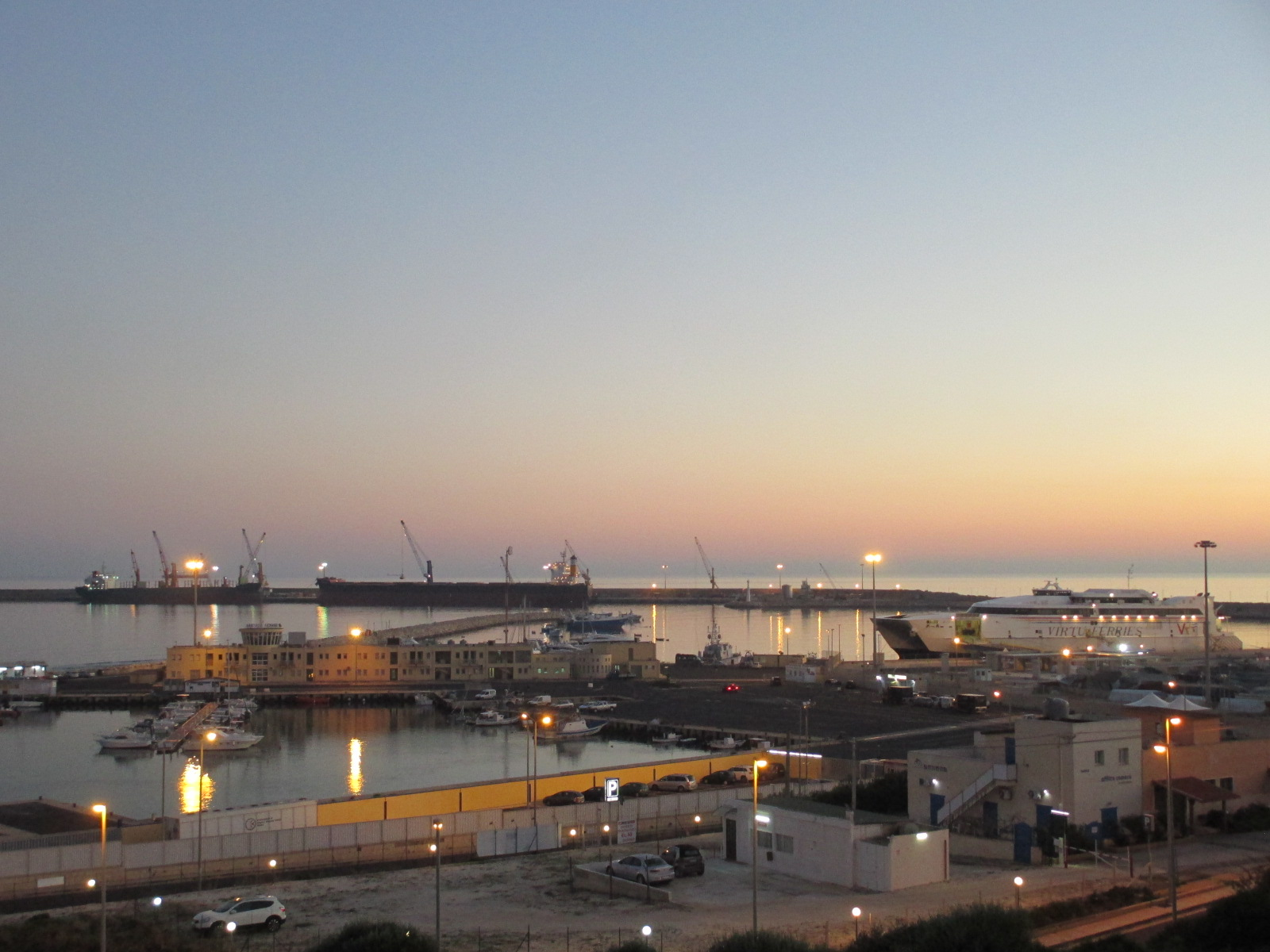 Port of Pozzallo at sunset